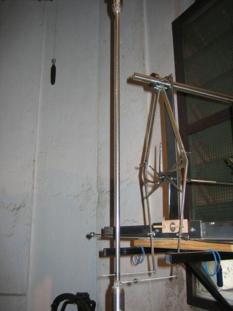 An image of six legged gravity escapement driving a 9m (5 SECONDS) pendulum qith a driveweight 05 500 grams at the Schwaebisches Turmuhrenmuseum in Meindelheim Germany